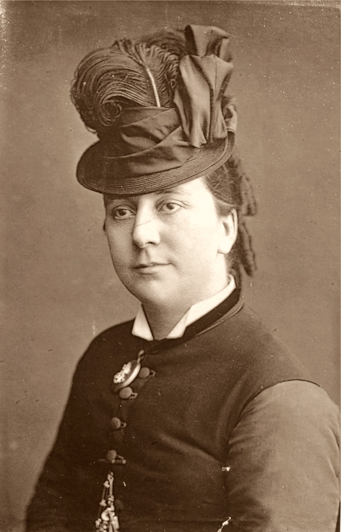 Janet Monach Patey 1842-1894, English Opera Singer.